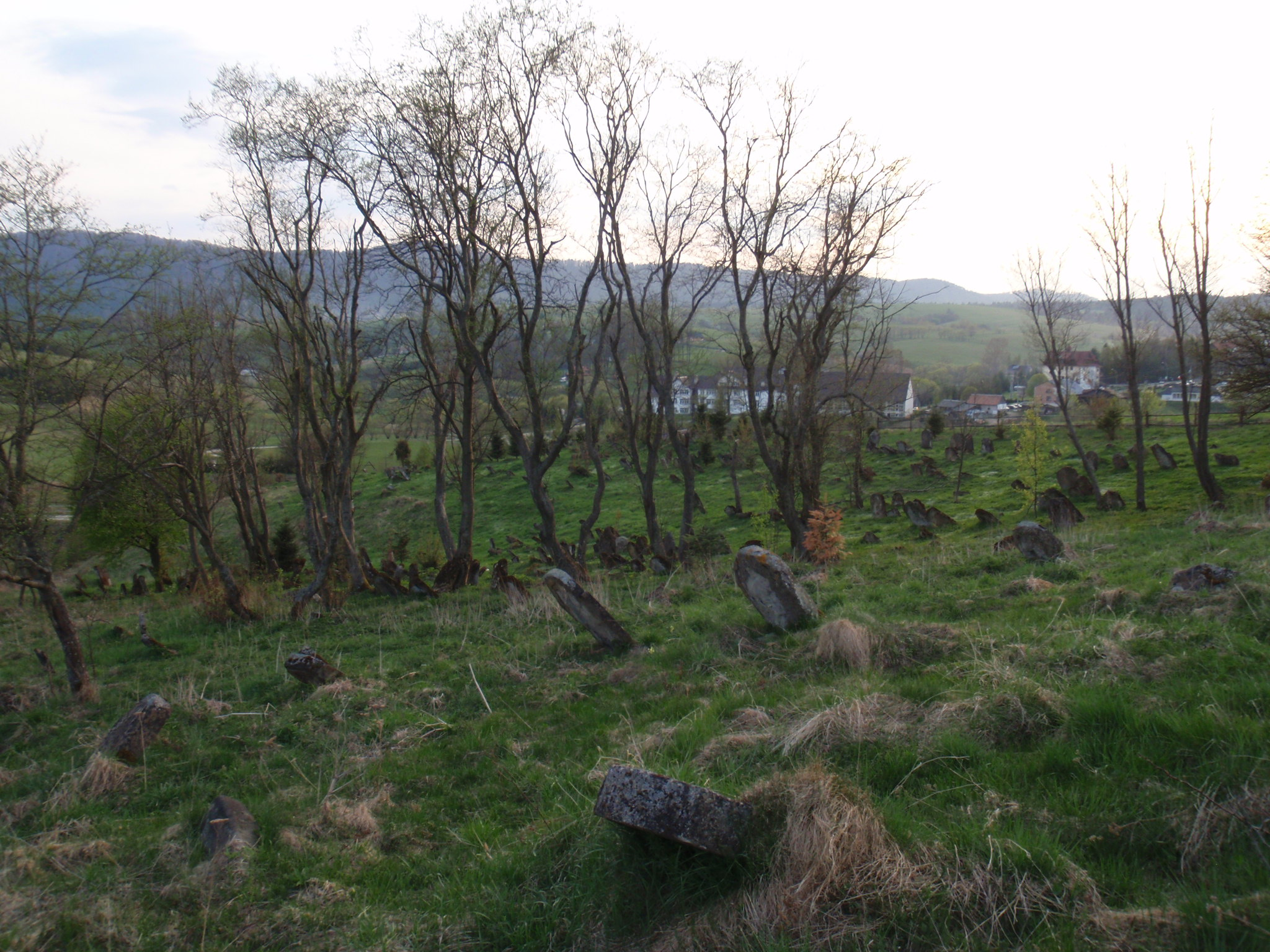 Lutowiska - jewish cemetery